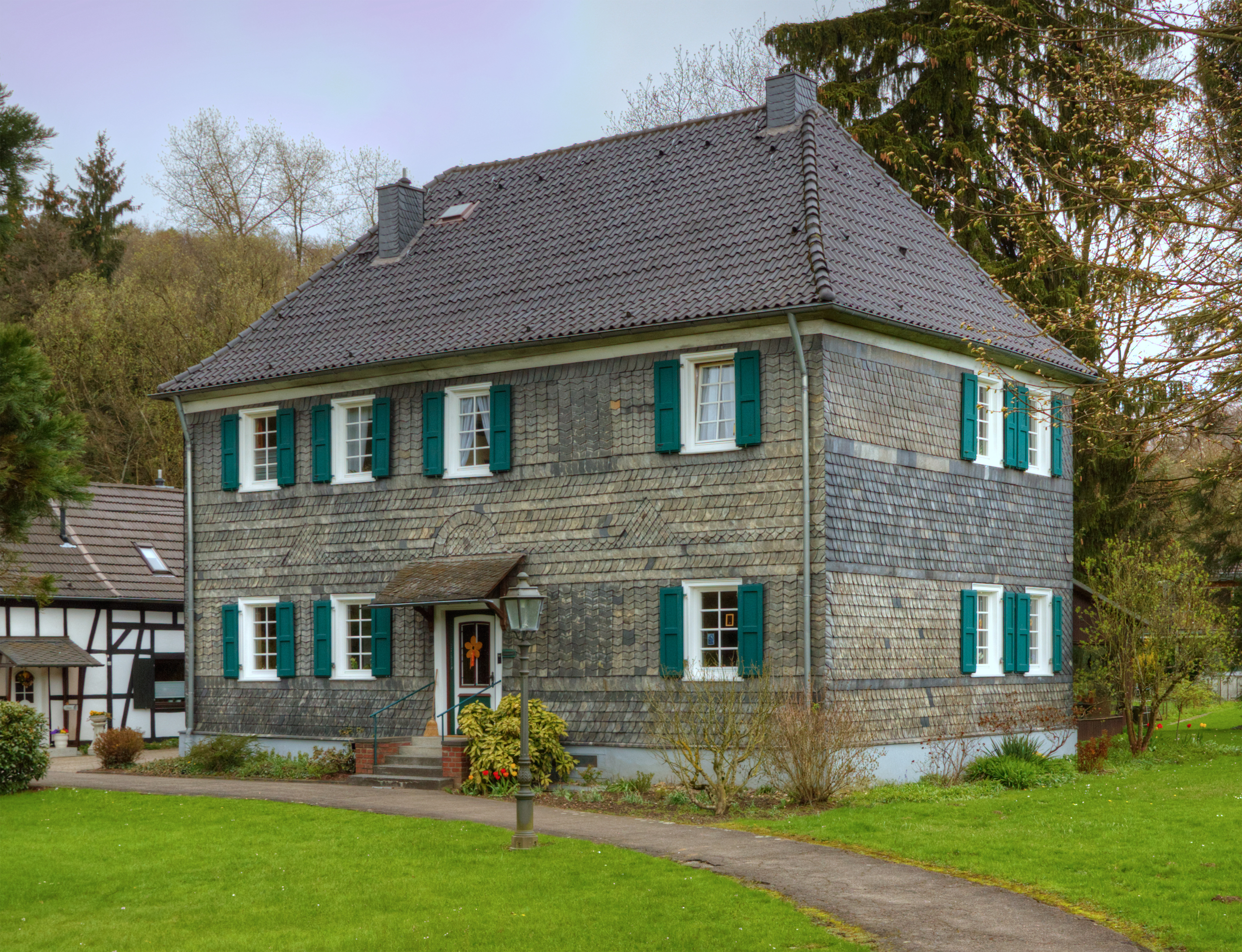 Odenthal (NRW, Germany); parish house